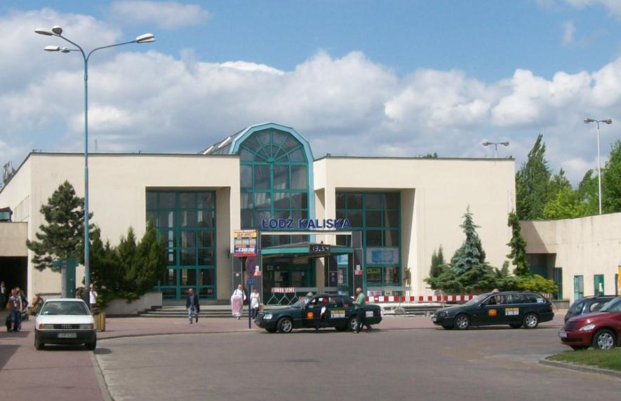 Train station Łódź Kaliska.